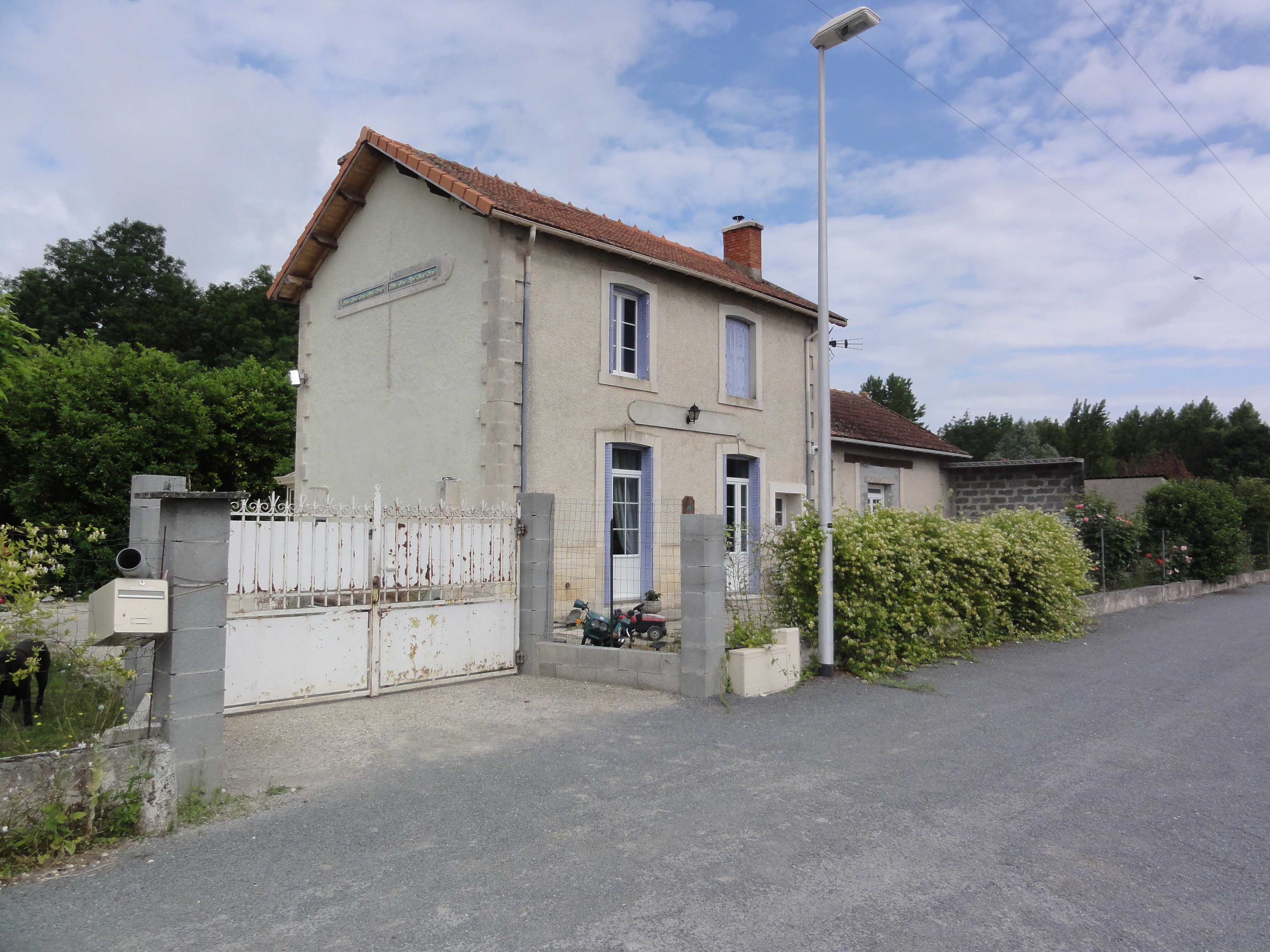 Vervant (Charente-Maritime) ancienne gare